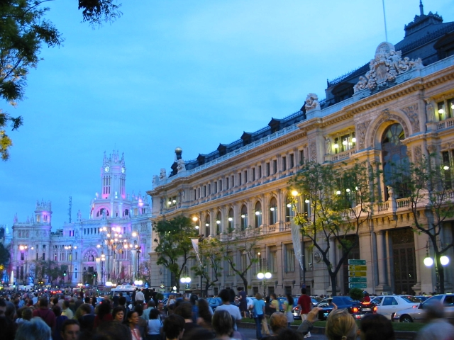 View from Calle de Alcalá (street) in Madrid (Spain). Right: Bank of Spain headquarters. Background: Plaza de Cibeles (square), and in it, Palacio de Comunicaciones (Madrid's city hall).